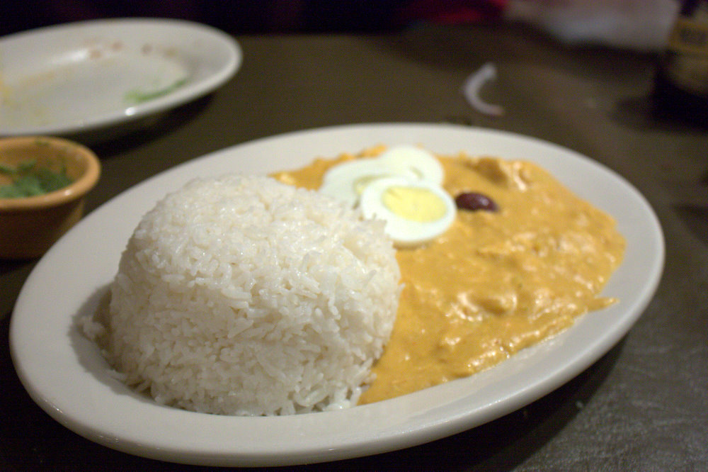 Get the full scoop